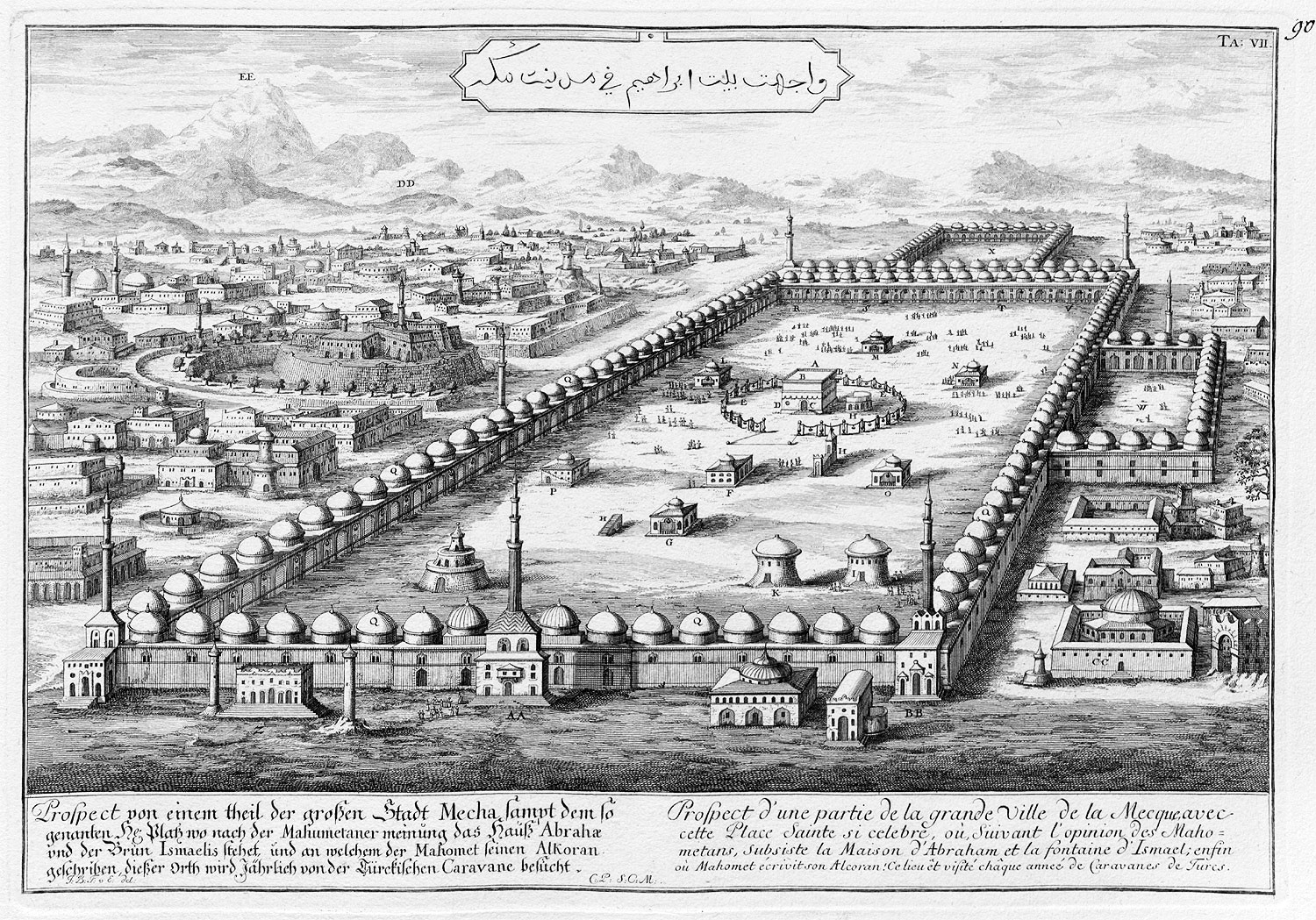 Illustration from "Entwurff einer historischen Architectur" (Project of a historic architecture). Partial view of Mecca.